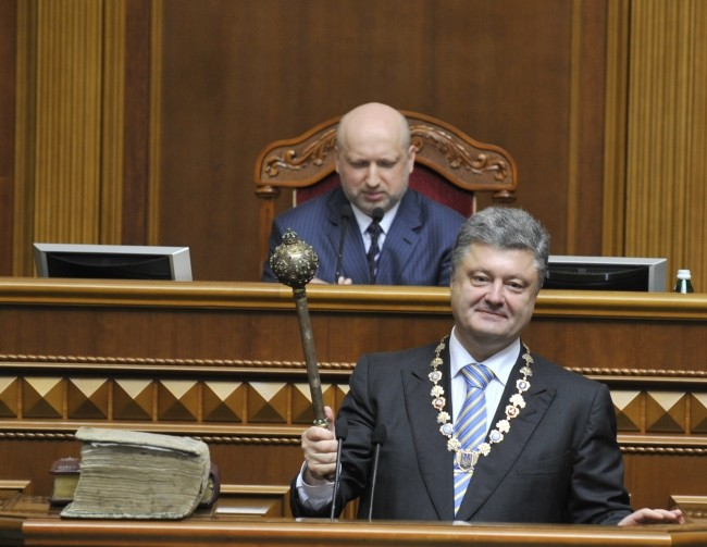 Petro Poroshenko presidential inauguration, 7th June 2014